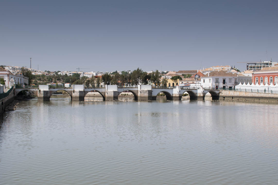 The old Roman Bridge in the city of Tavira, Algarve, Portugal. This monument is classified as Imóvel de Interesse Público. This building is classified as Imóvel de Interesse Público.